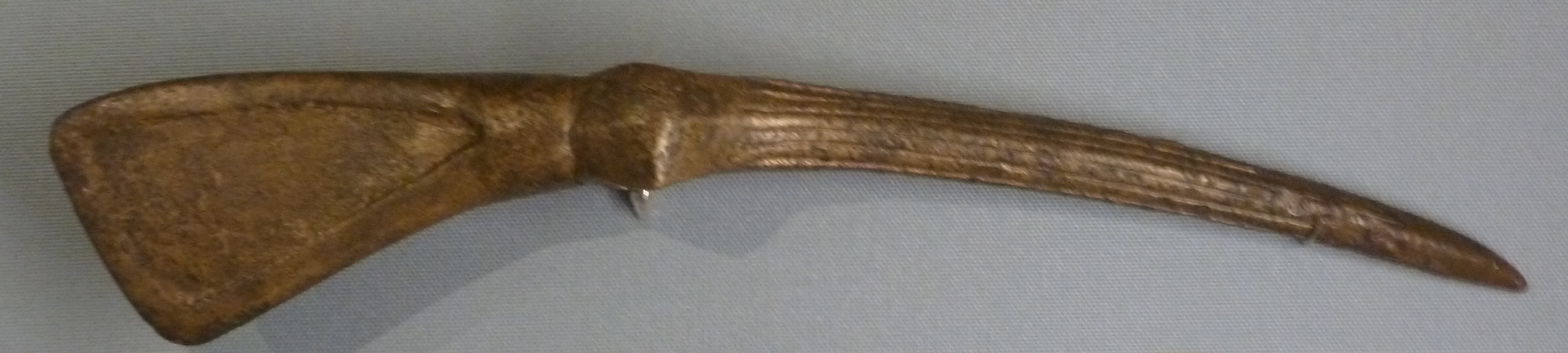 Bronze Axe, 6th century BC, barrow at the Tsukur estuary, Taman peninsula, provenance 1913. Today at the Hermitage Museum, St. Petersburg.